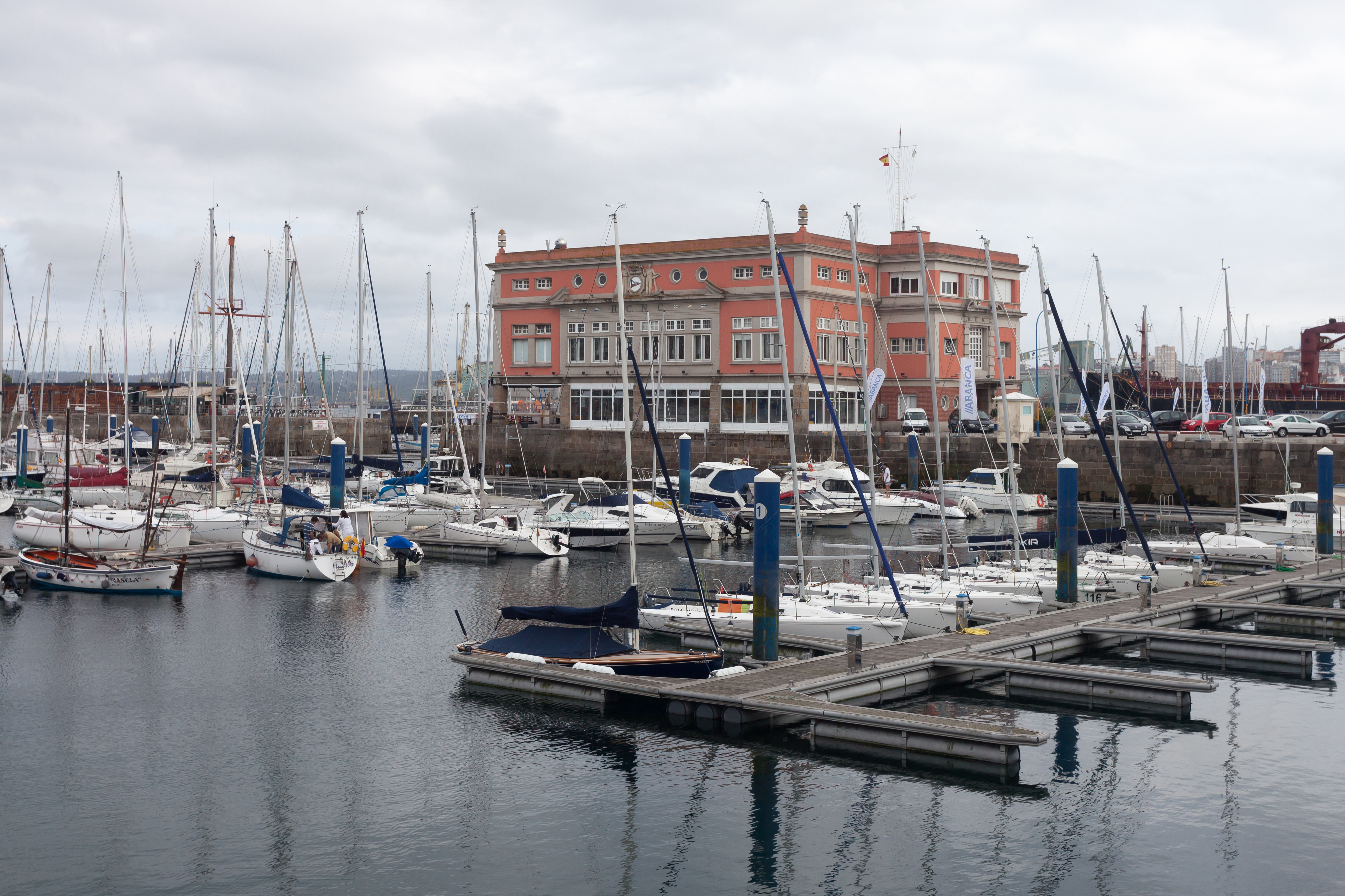 Building of Royal Corunna Yacht Club, Galicia (Spain).